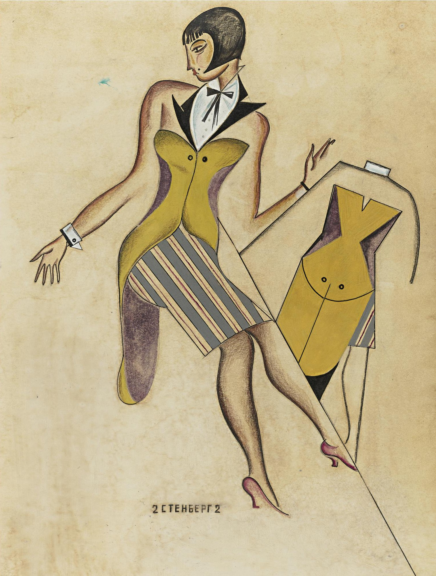 Costume design for Day and Night - Georgii Stenberg - circa 1920